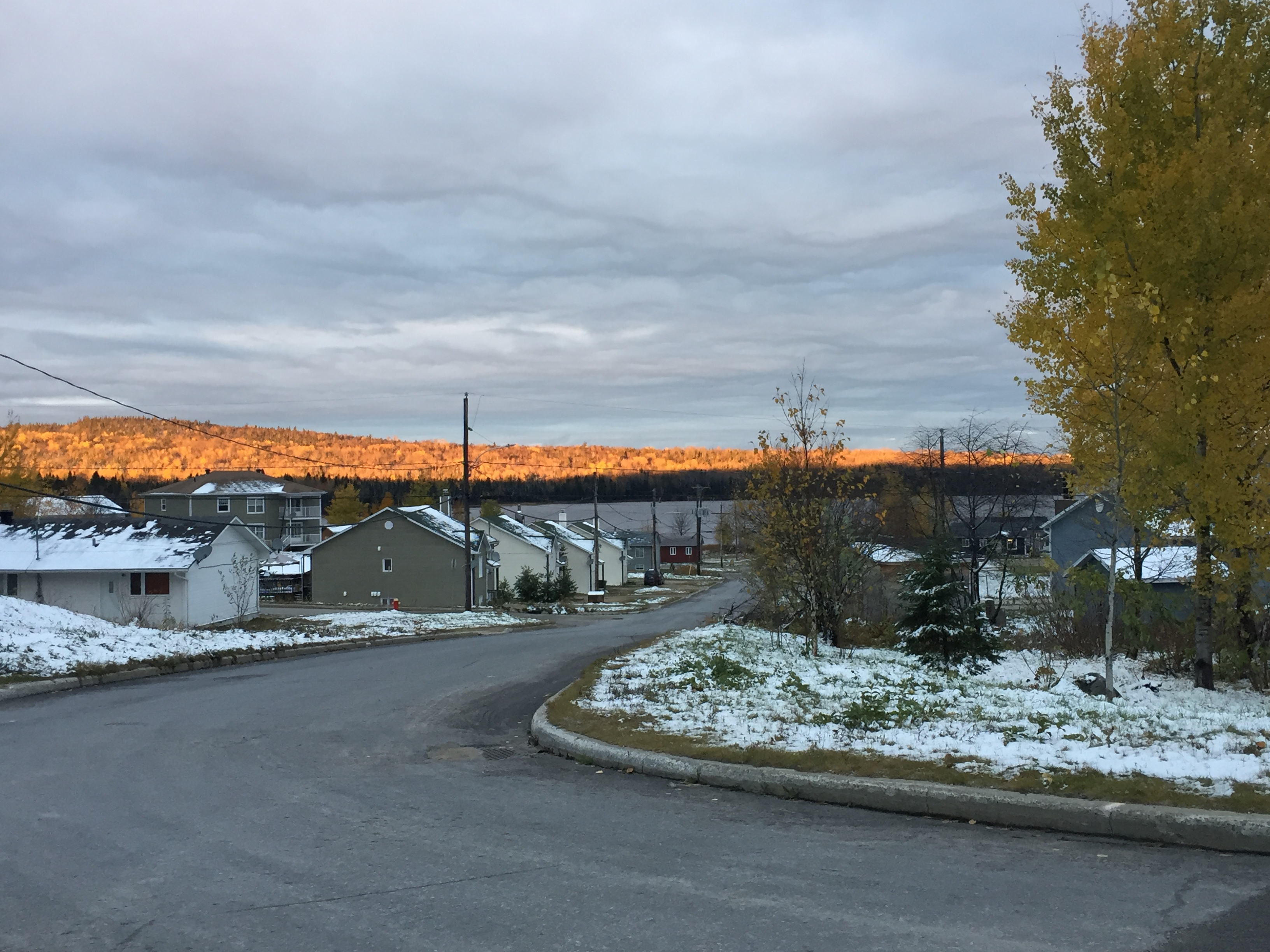 Atikamekw Road in Manawan